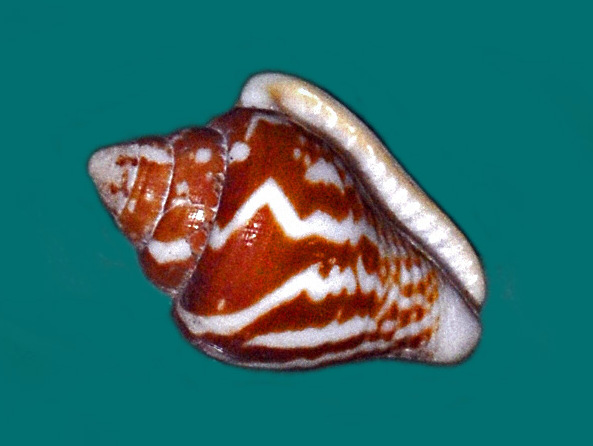 A shell of Columbella strombiformis, on display at the Museo Civico Craveri di Scienze Naturali - Bra